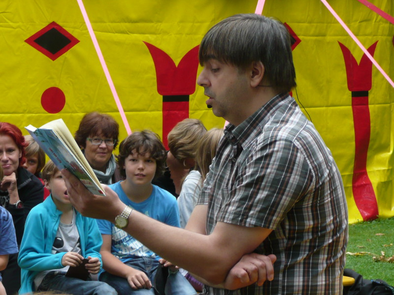 German writer Salah Naoura reads at the Erlanger Poetenfest 2011